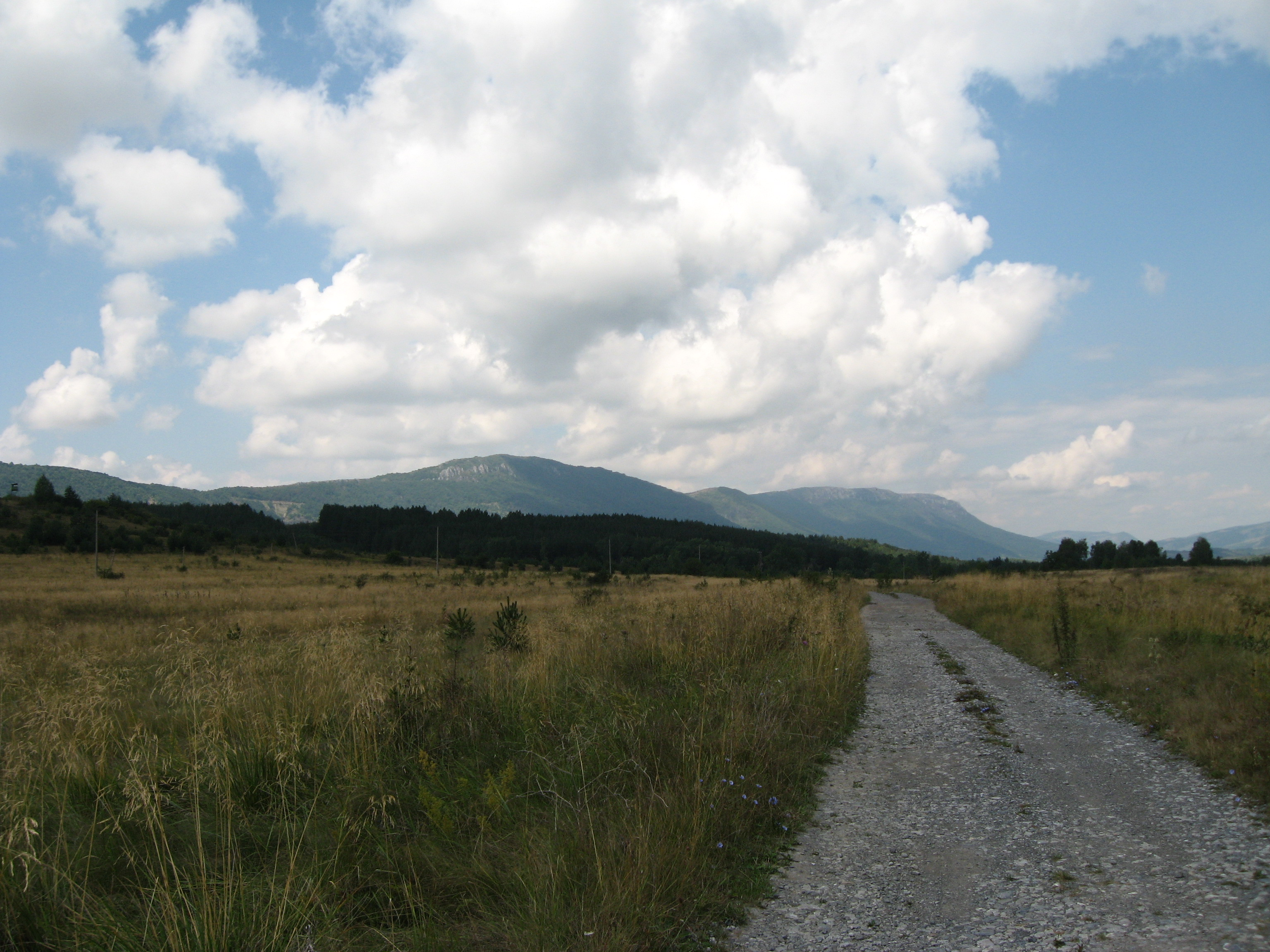 Surroundings of village Smolcha, Bulgaria